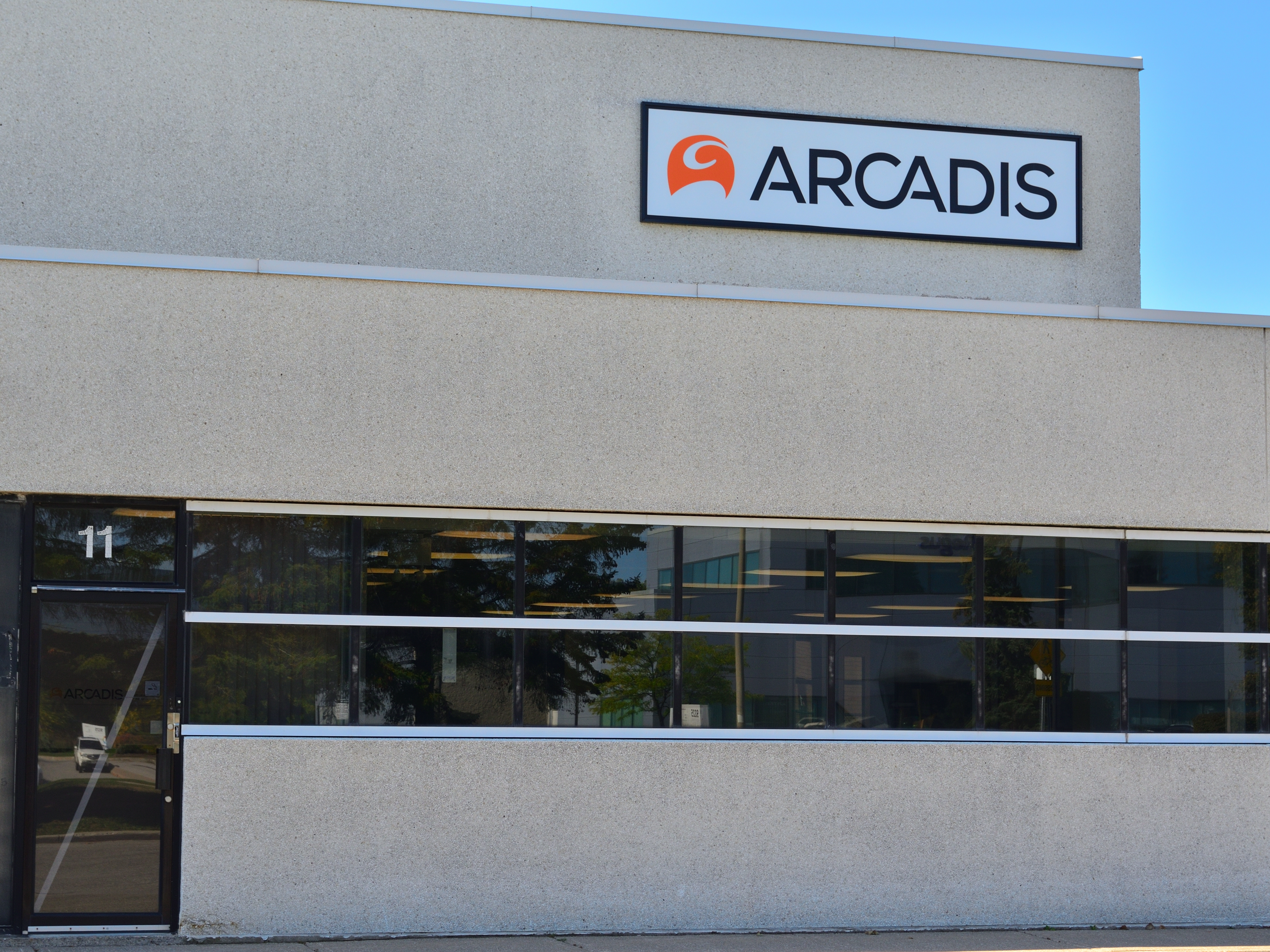 Arcadis office - Address: 121 Granton Dr, Richmond Hill, ON L4B 3N4